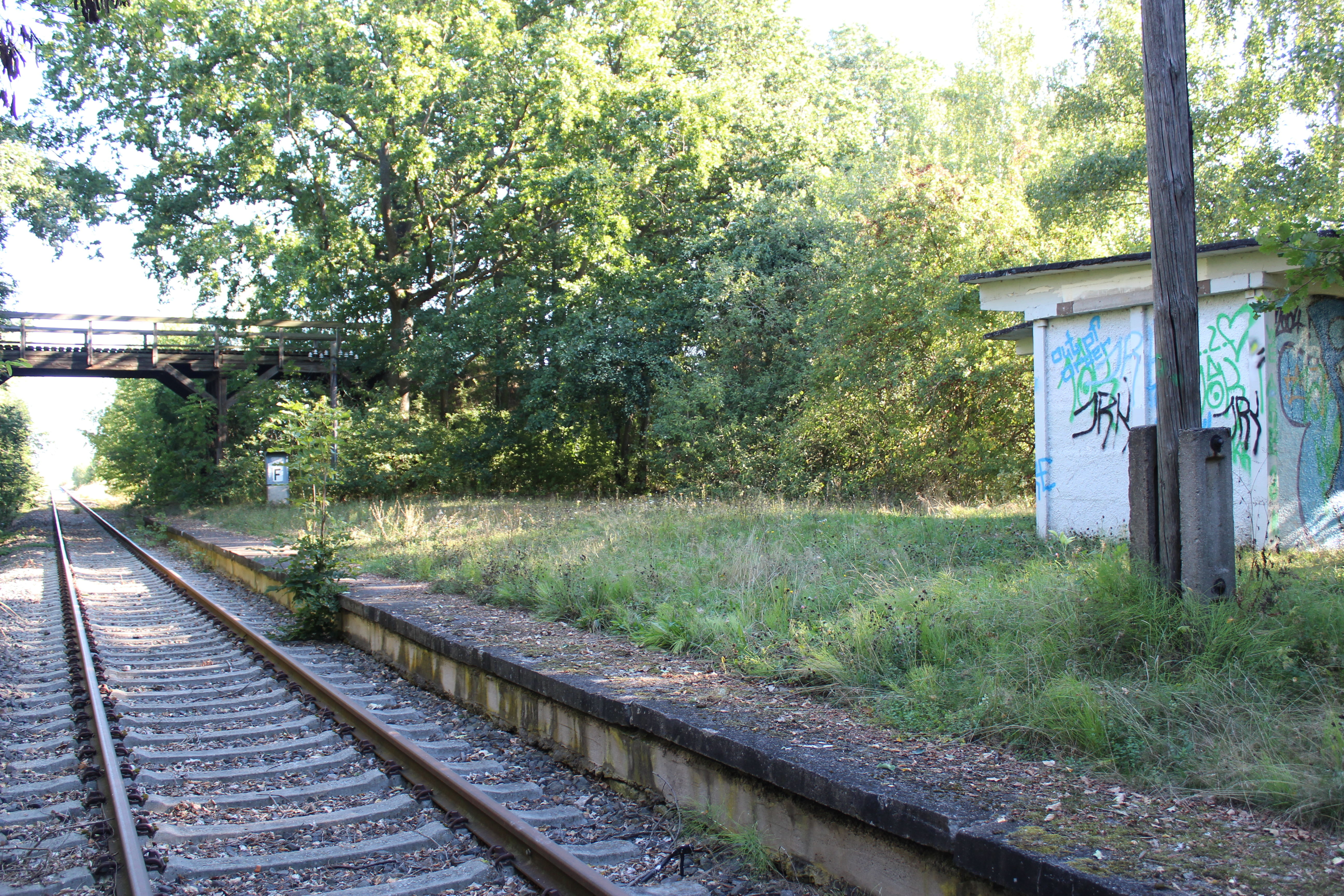 train station Petriroda